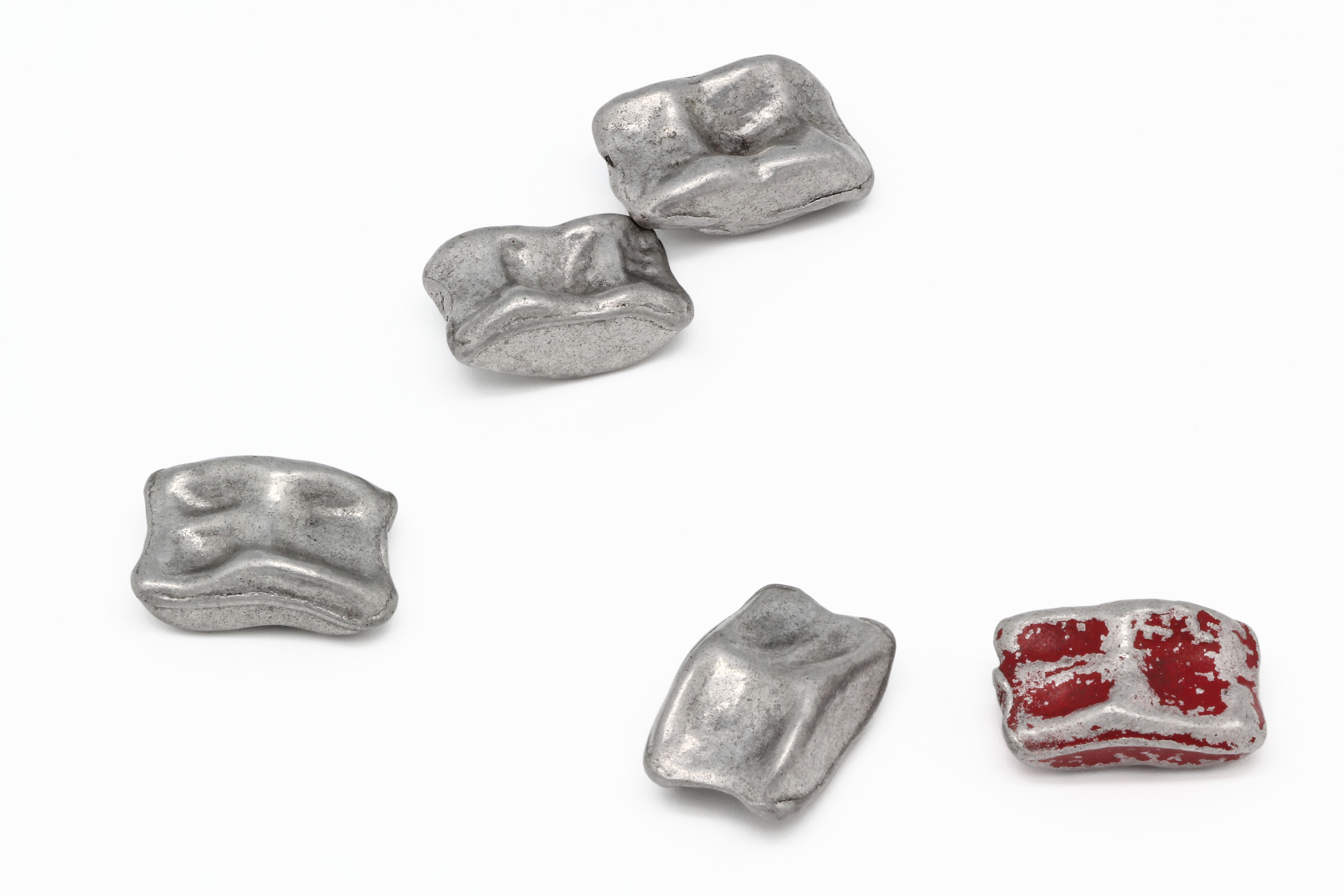 Knucklebones